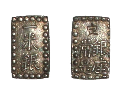 Kaei-1shugin